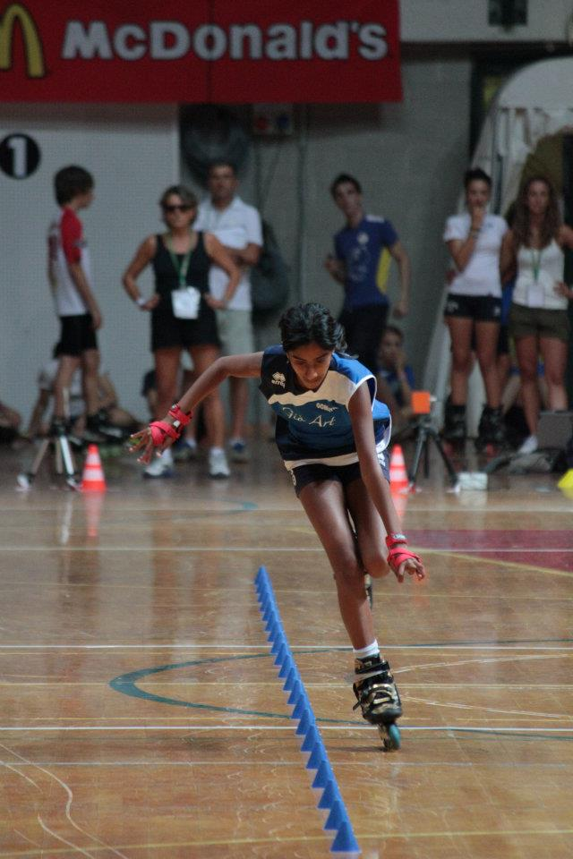 Speed Slalom skating freestyle inline